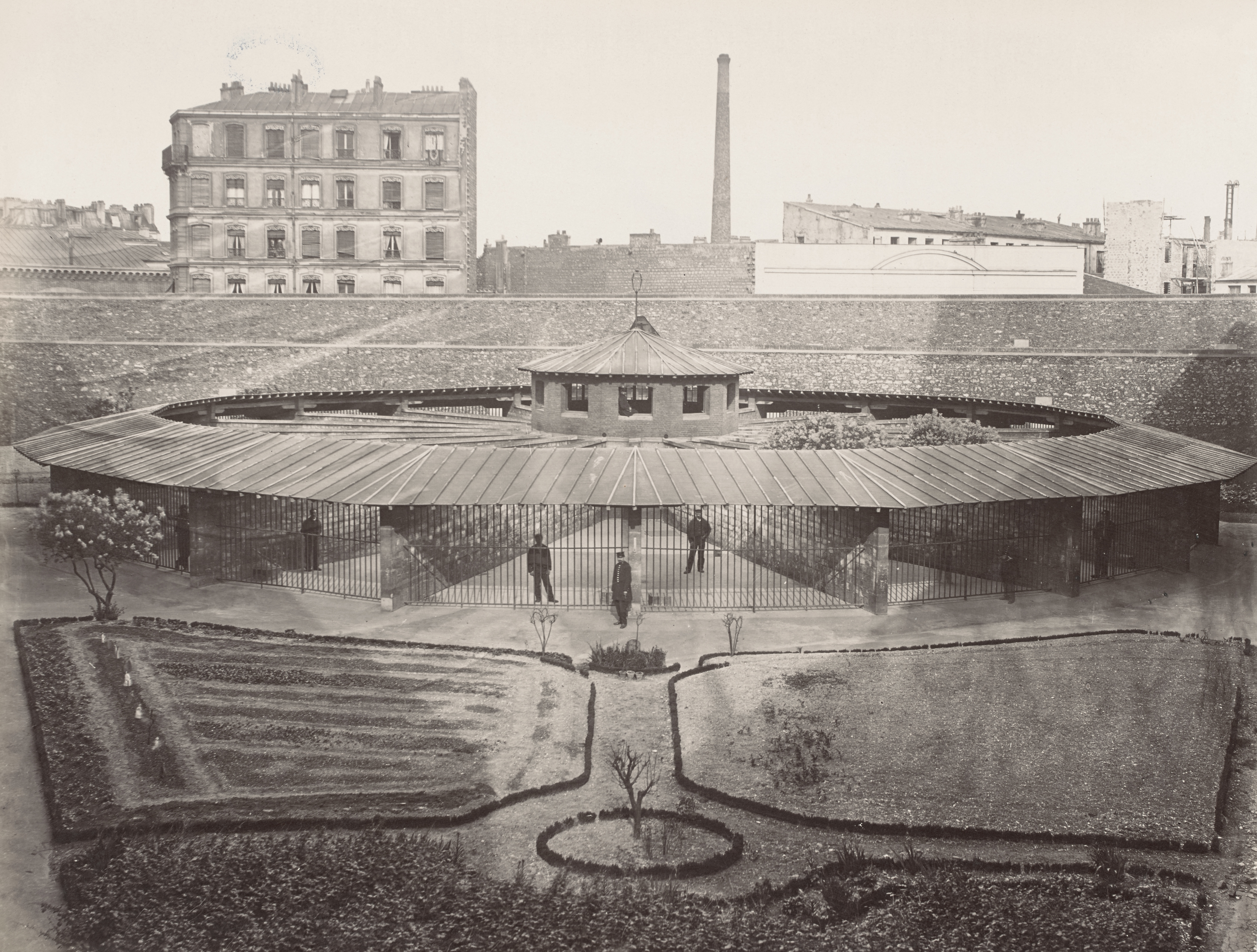 Maison D'Arrét Cellulaire (Mazas): Promenoirs Cellulaires: Elevated view of garden and paths in front of a circular building with barred gates and individual walled off promenade areas.